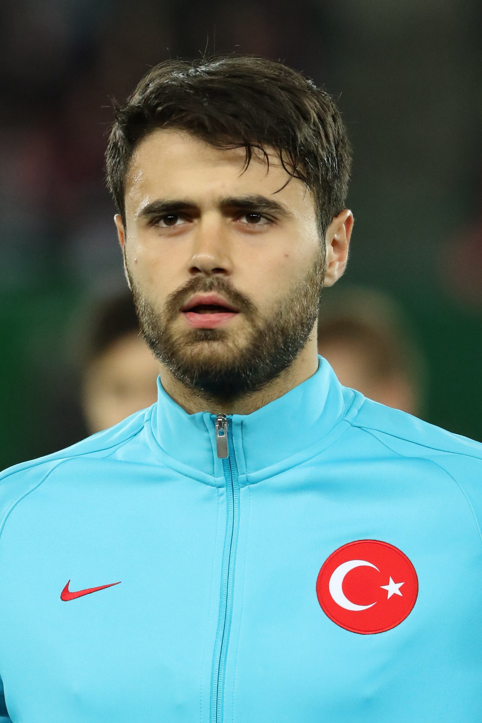 Friendly match – Austria (red shirts) vs. Turkey (blue shirts) 1–2 (1–1) on 2016-03-29 in Ernst-Happel-Stadion, Vienna – The photo shows Ahmet Yılmaz Çalık (Gençlerbirliği).